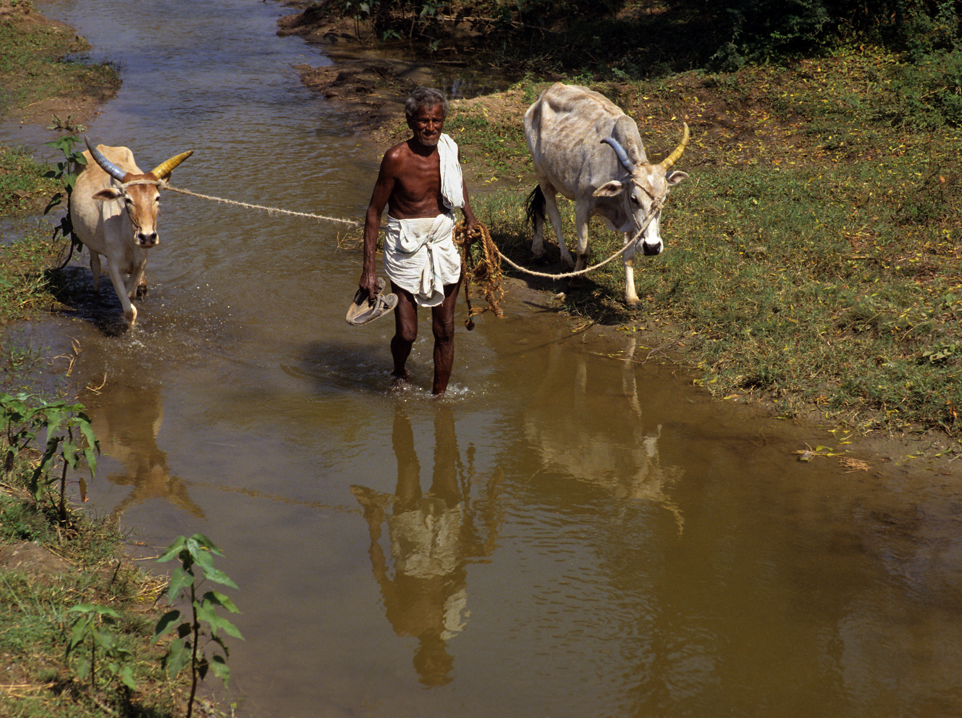 Farmer with oxen in Tamil Nadu, India in the year 1993.